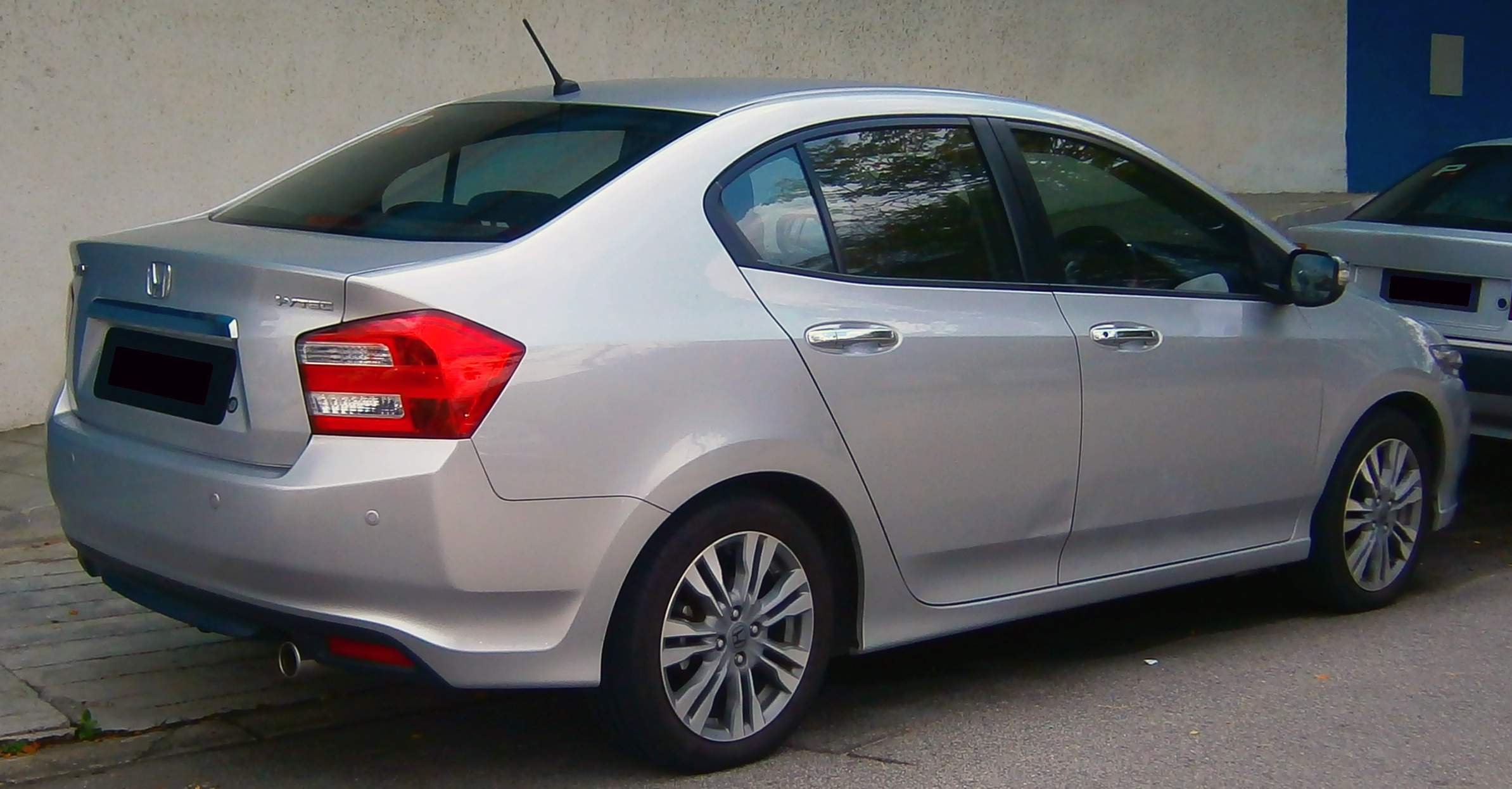 2012 Honda City E in Cyberjaya, Malaysia.